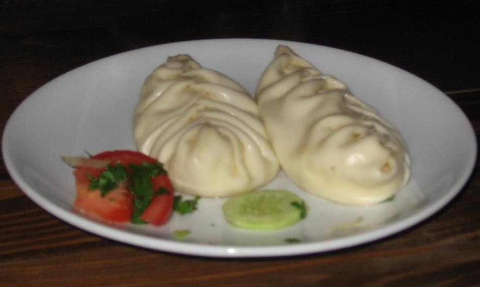 A plate of Cheese Khinkali.